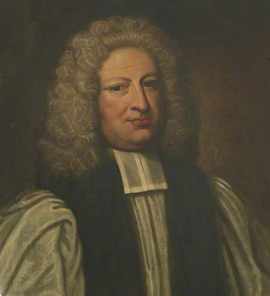 William Nicolson (1655-1727), Bishop of Carlisle